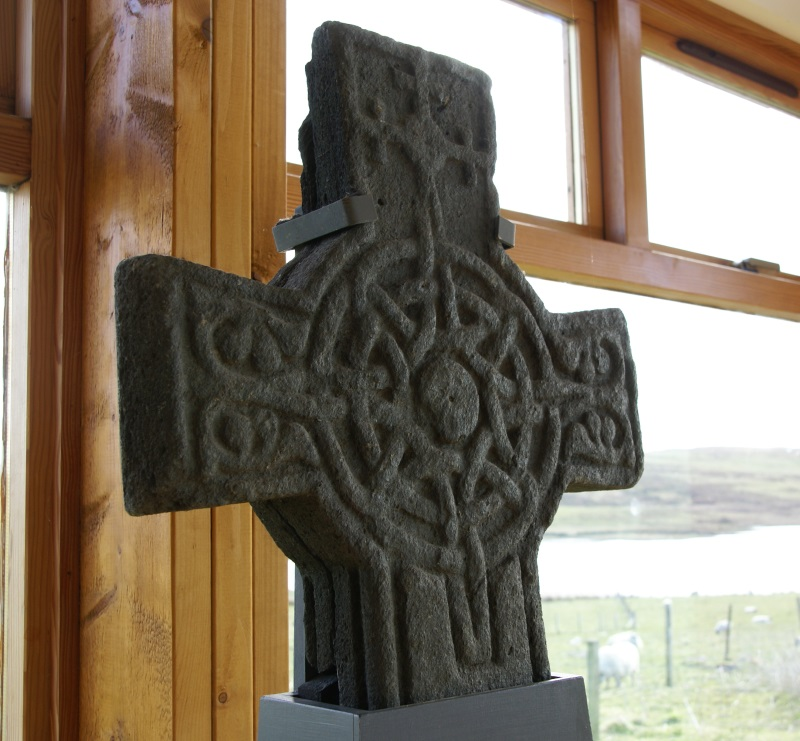 Finlaggan, Islay, Argyll and Bute, Scotland. Finlaggan Cross.